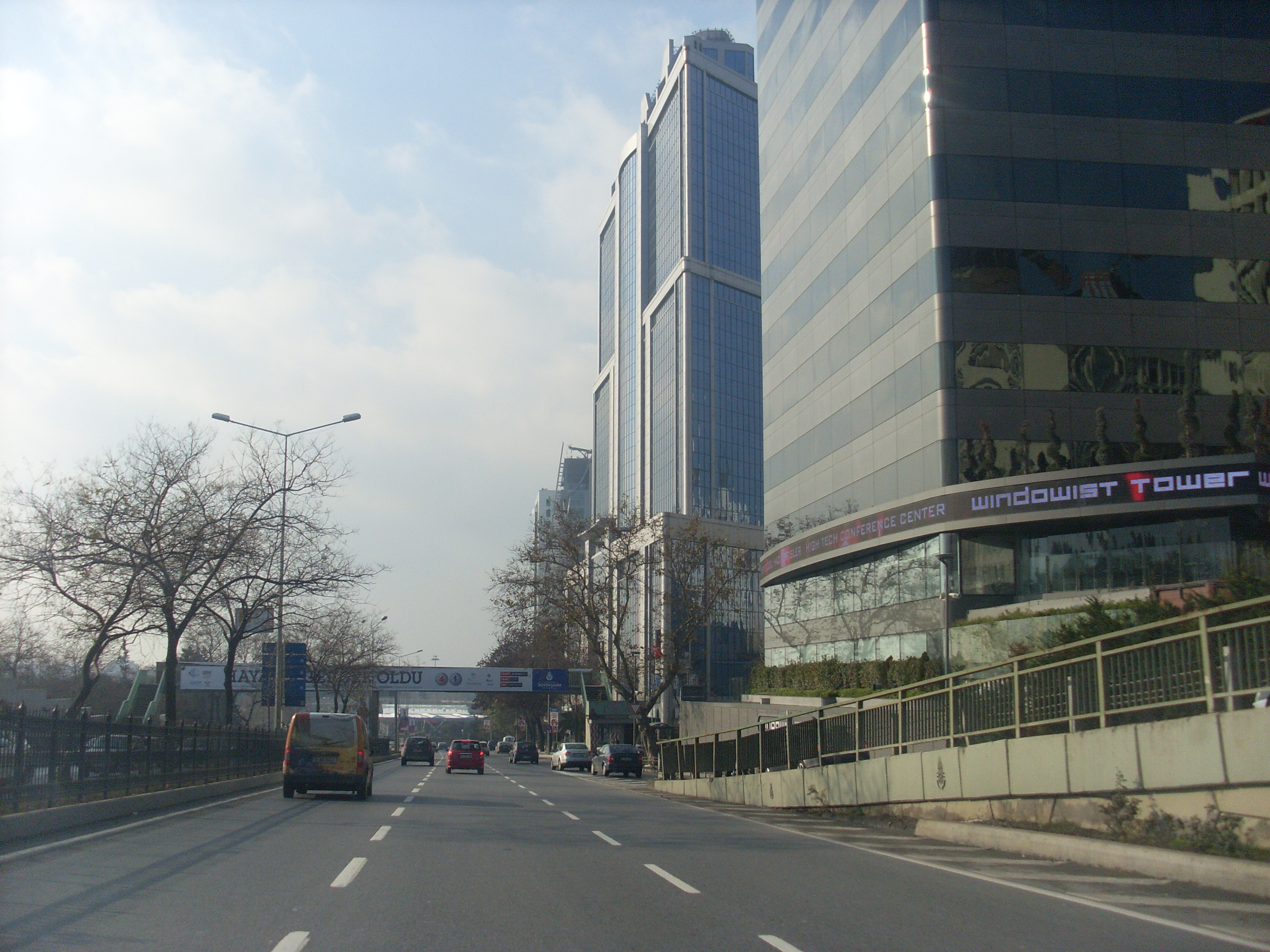 İstanbul, Büyükdere Cad. Maslak - Dec 2013